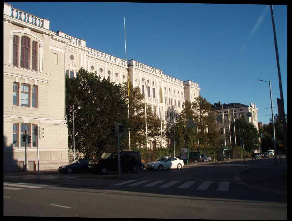 Former Helsinki University of Technology, seen from north-west